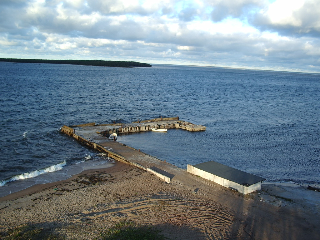 Salmistu beach in Kuusalu Parish, Harju County